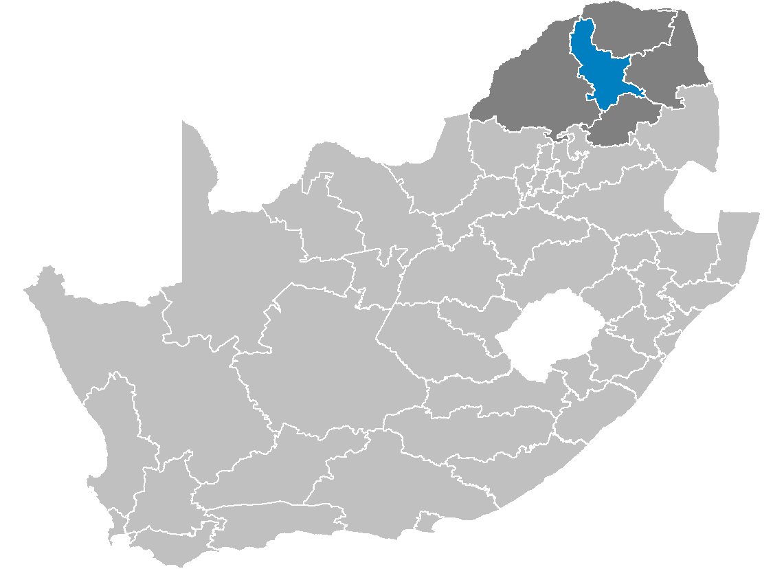 Map showing the Capricorn District Municipality higlighted within Limpopo.